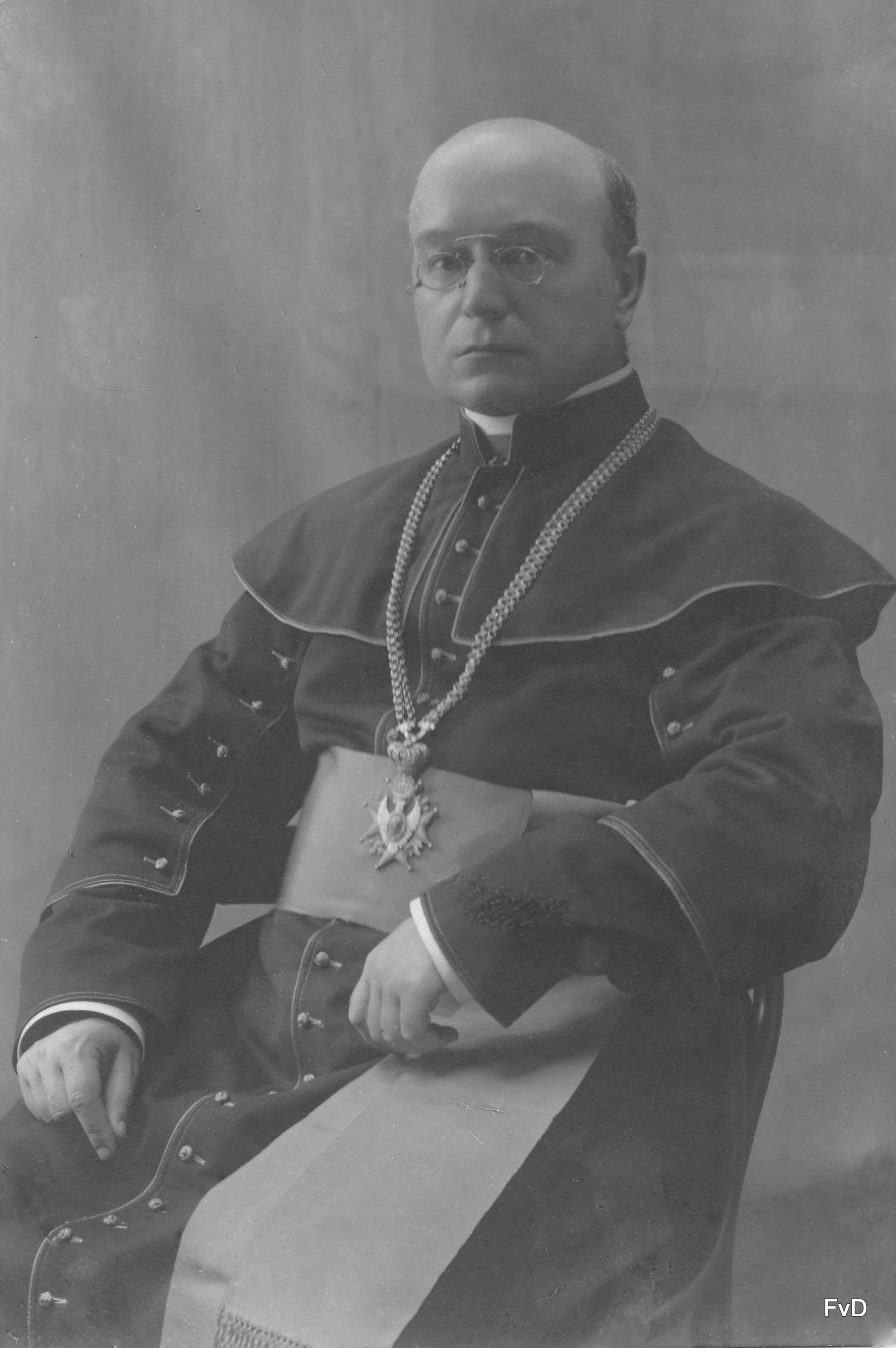 Picture of the blessed Antoni Zawistowski, made before 1940